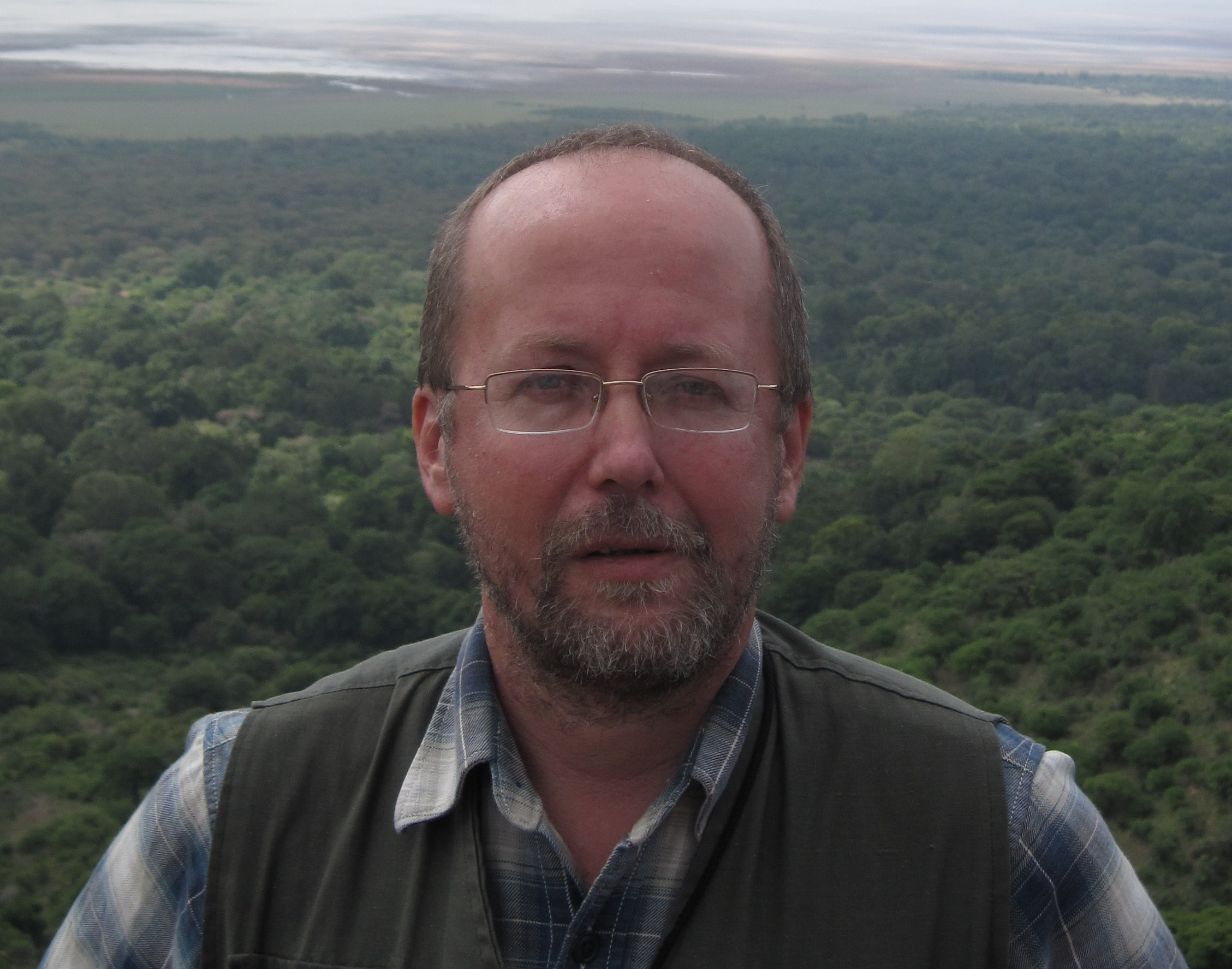 Andrey Korotayev (November 2008, Northern Tanzania over the Rift Valley